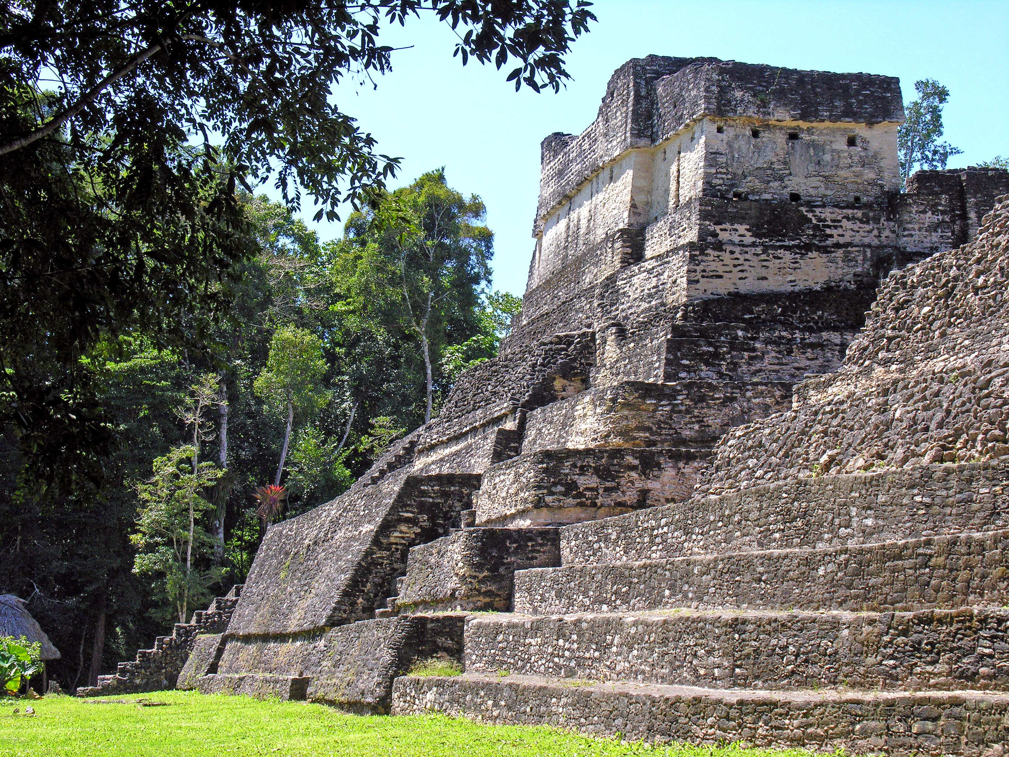 This is the back of a temple in Plaza A. Caracol, Belize